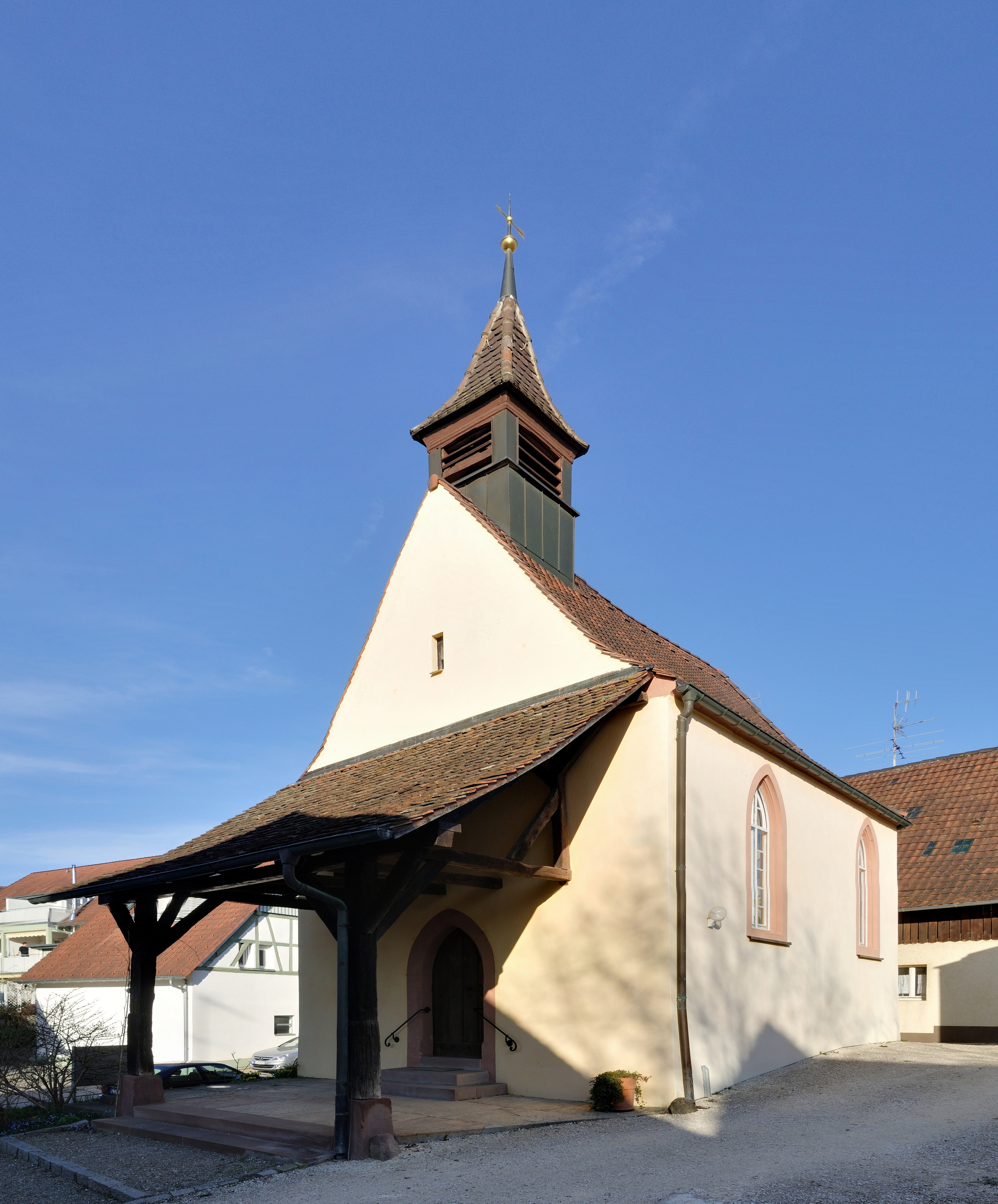 Rümmingen: Protestant Church